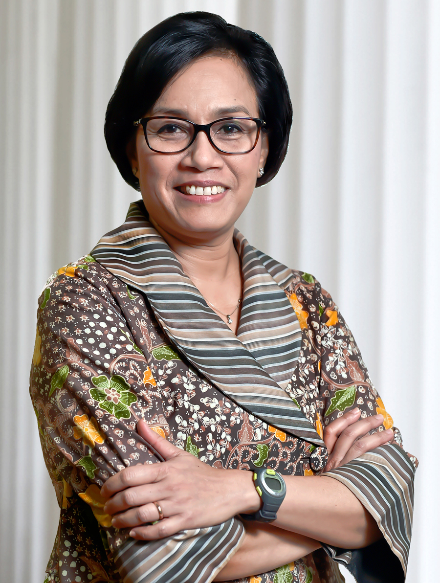 Sri Mulyani Indrawati as Finance Minister at the Working Cabinet (Joko Widodo)